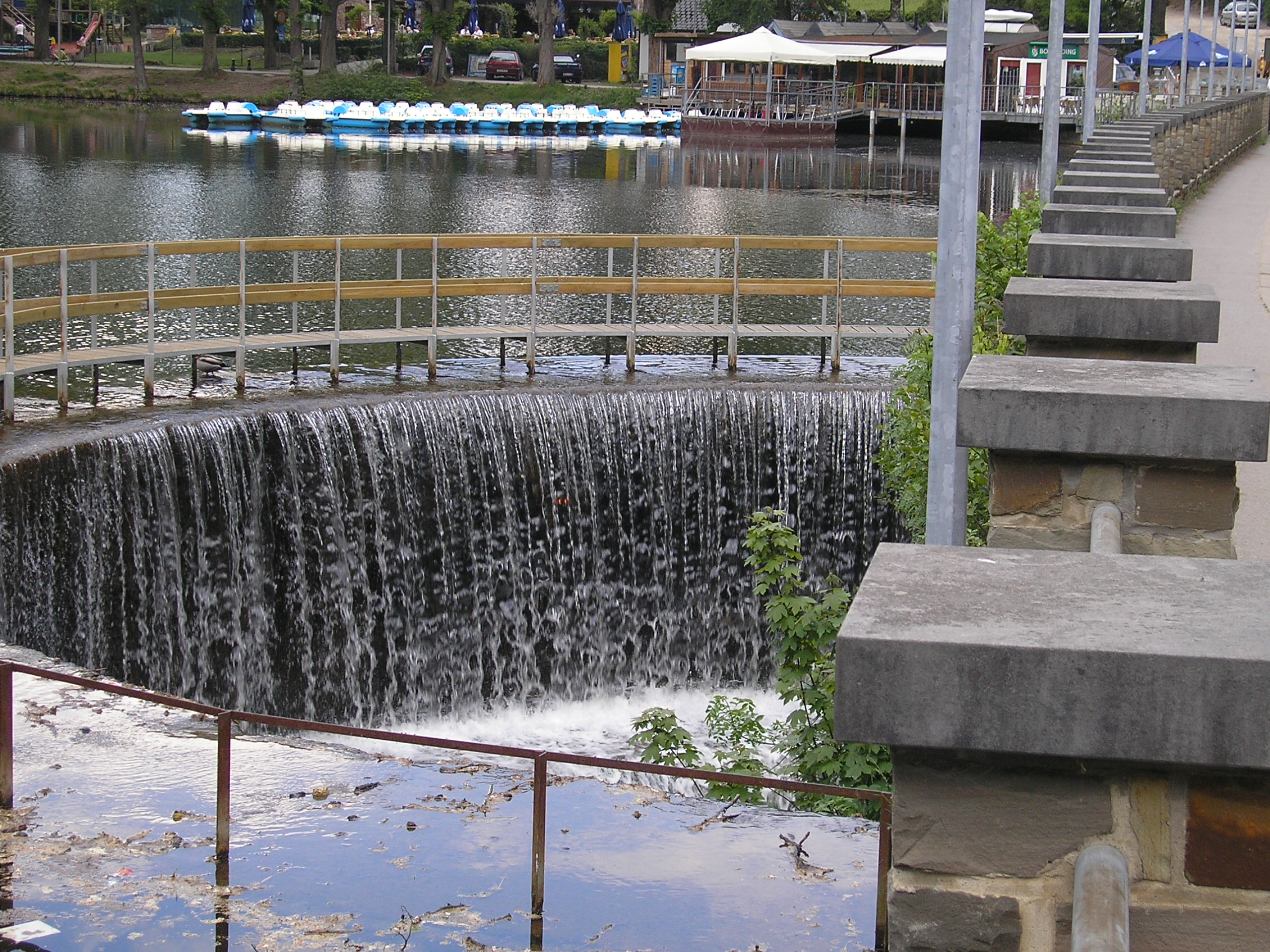 Spa, Belgium, Cascade, Lake Warfaaz